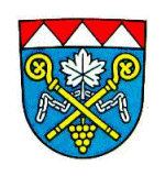 Coat of Arms of Güntersleben